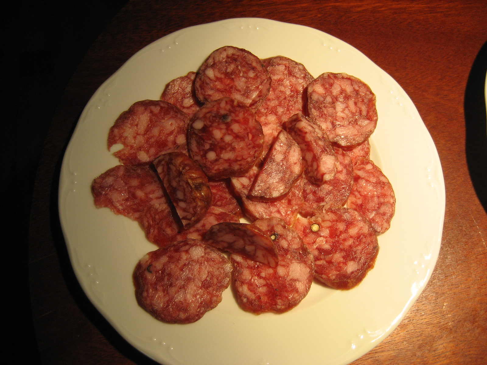 Sliced salchichón (spiced sausace)